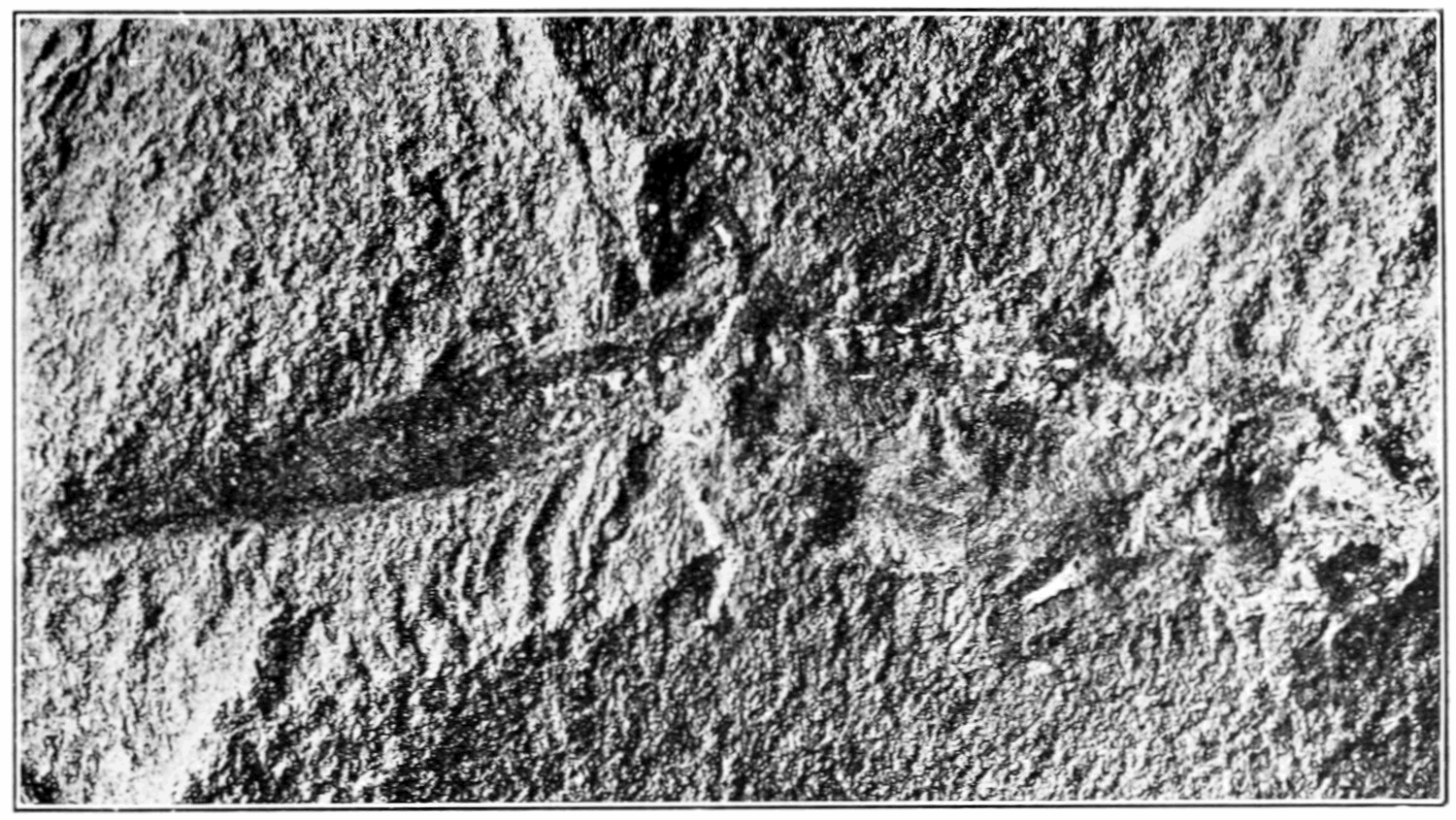 Micrerpeton caudatum moodie from the carboniferous of mazon creek